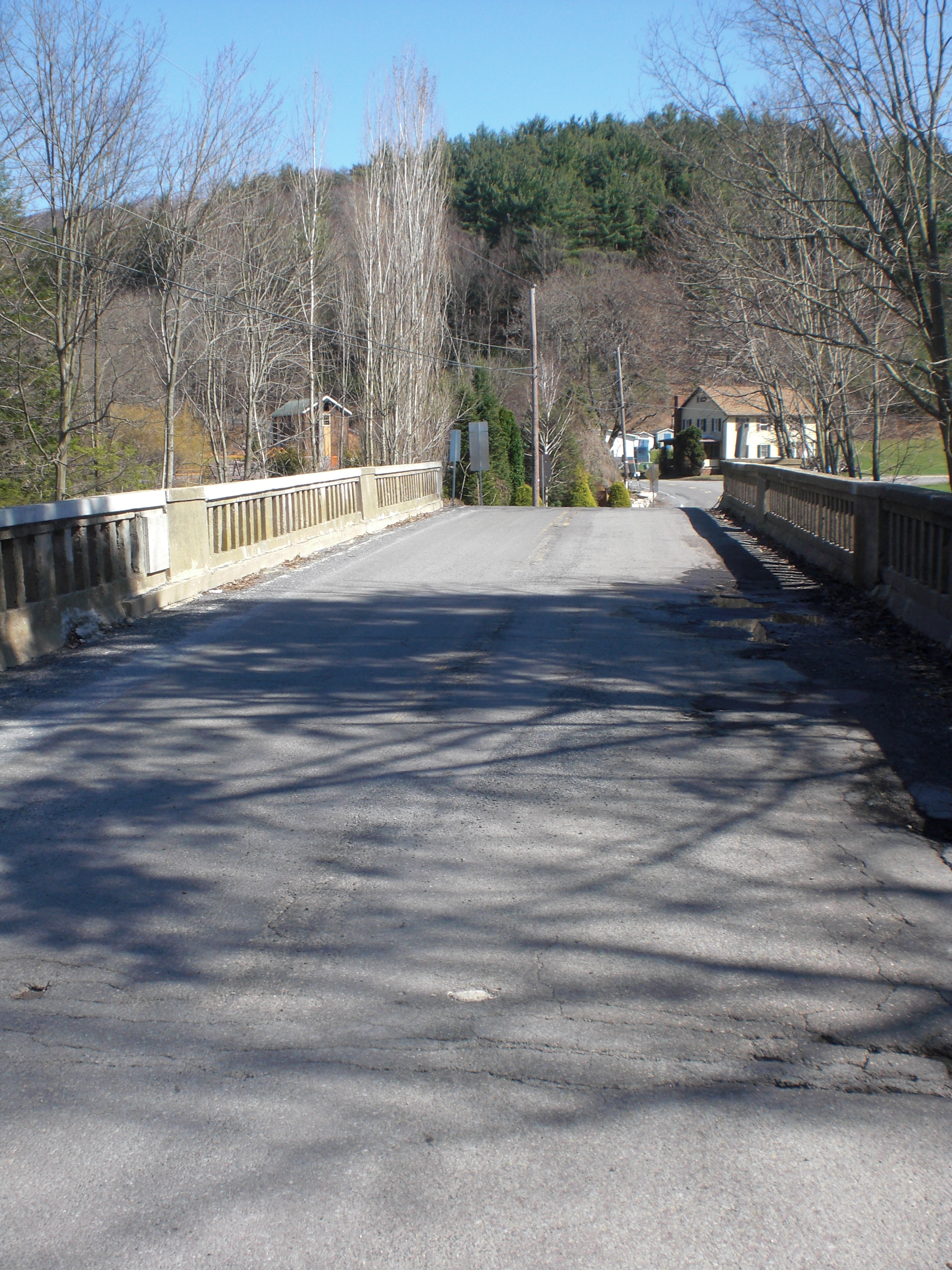 Pennsylvania Route 339 southbound going over Catawissa Creek in Zion Grove